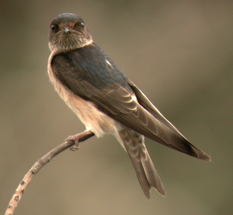 Tree Martin (Petrochelidon nigricans Syn. Hirundo nigricans) Sherwood, SE Queensland, Australia